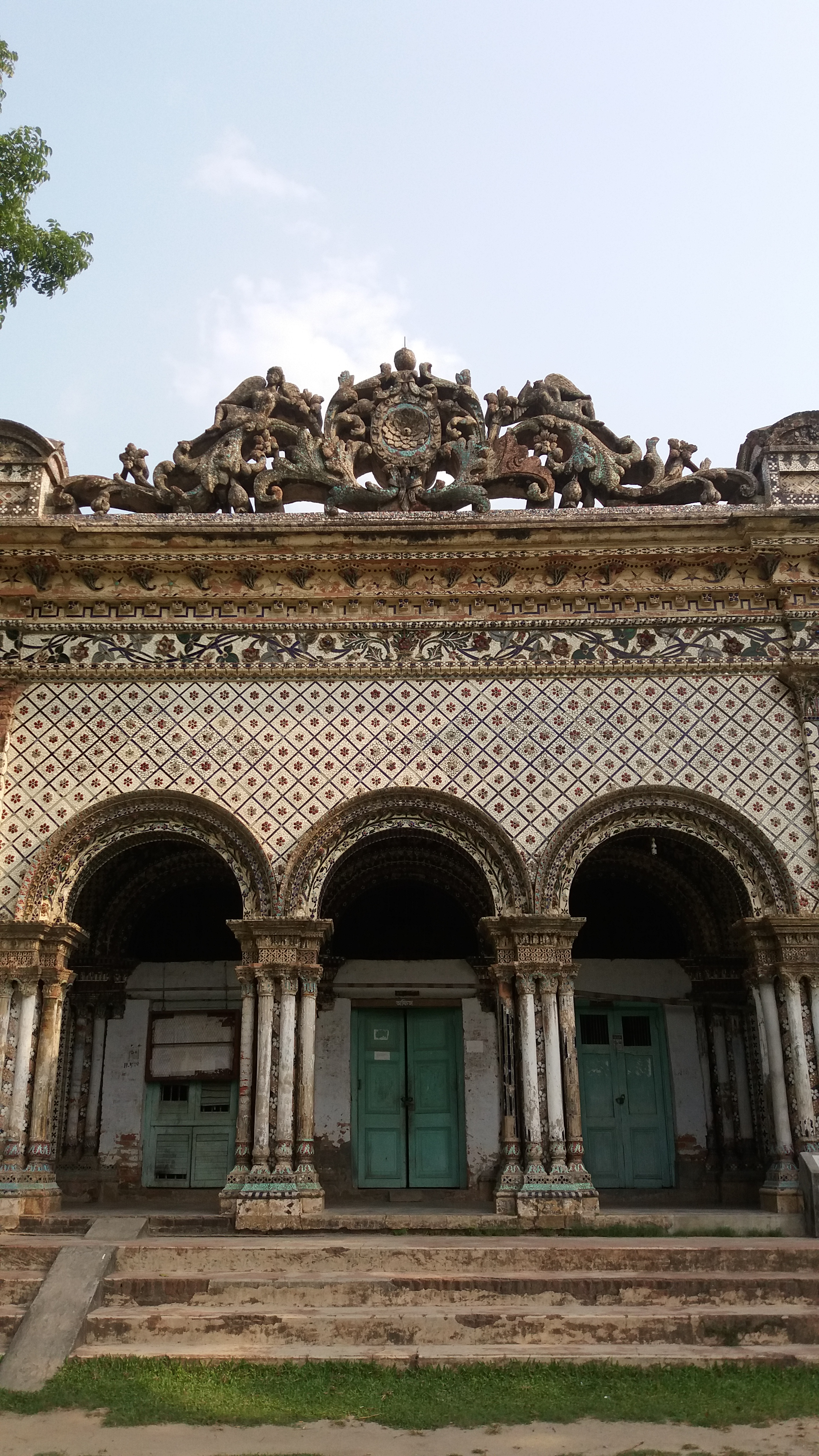 Hemnagar Rajbari is one of the most beautiful palace of King Hem Chandra Chowdhury. It is now in Hemnagar union under Gopalpur upazila in Tangail district.